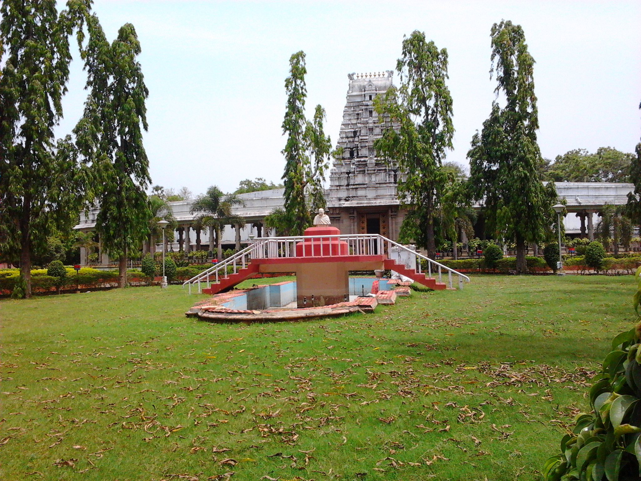 Photoed using Samsung Wave 525.